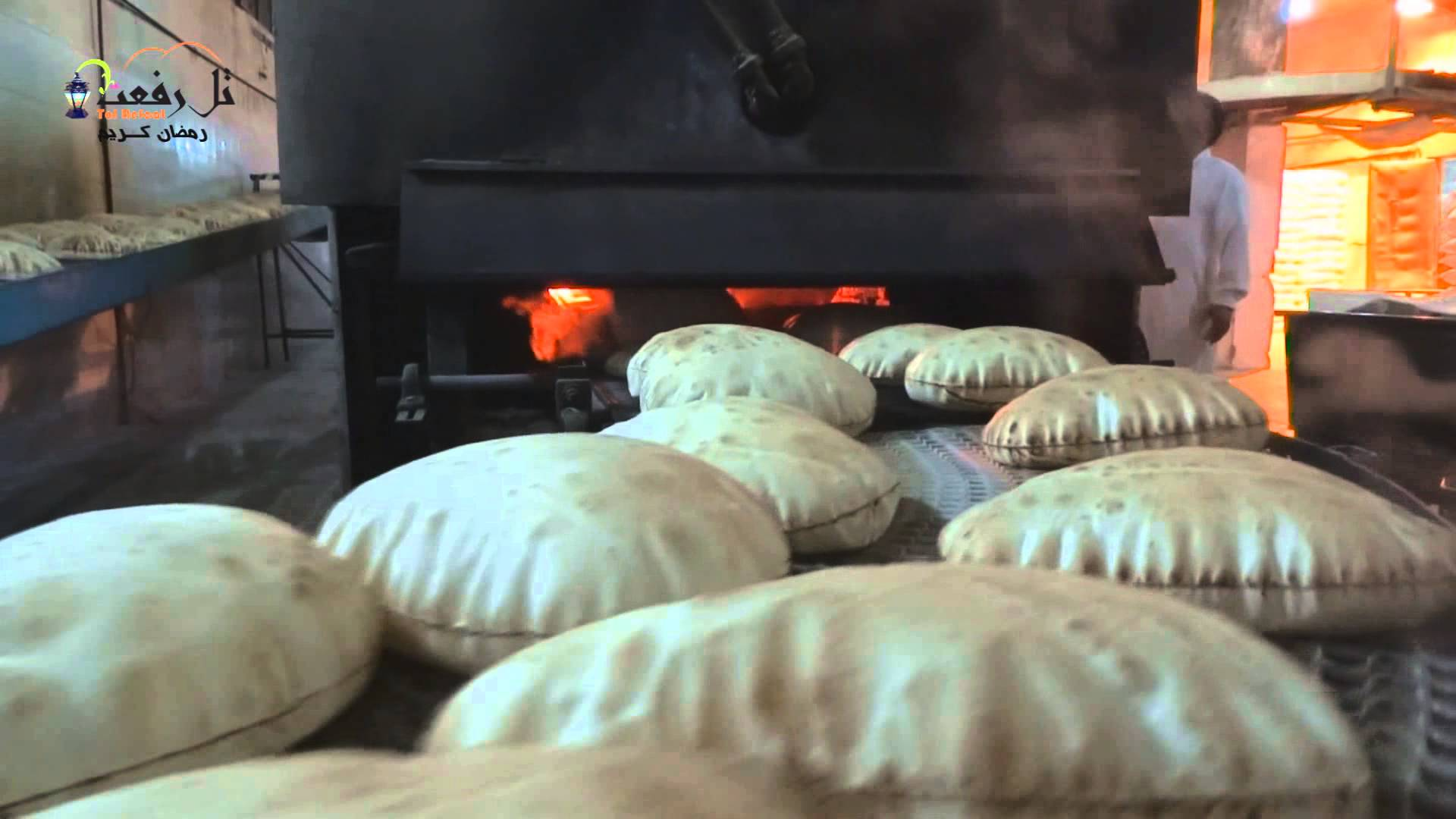 Baked pita exit an oven on a conveyor belt in Tell Rifaat, northwestern Syria.